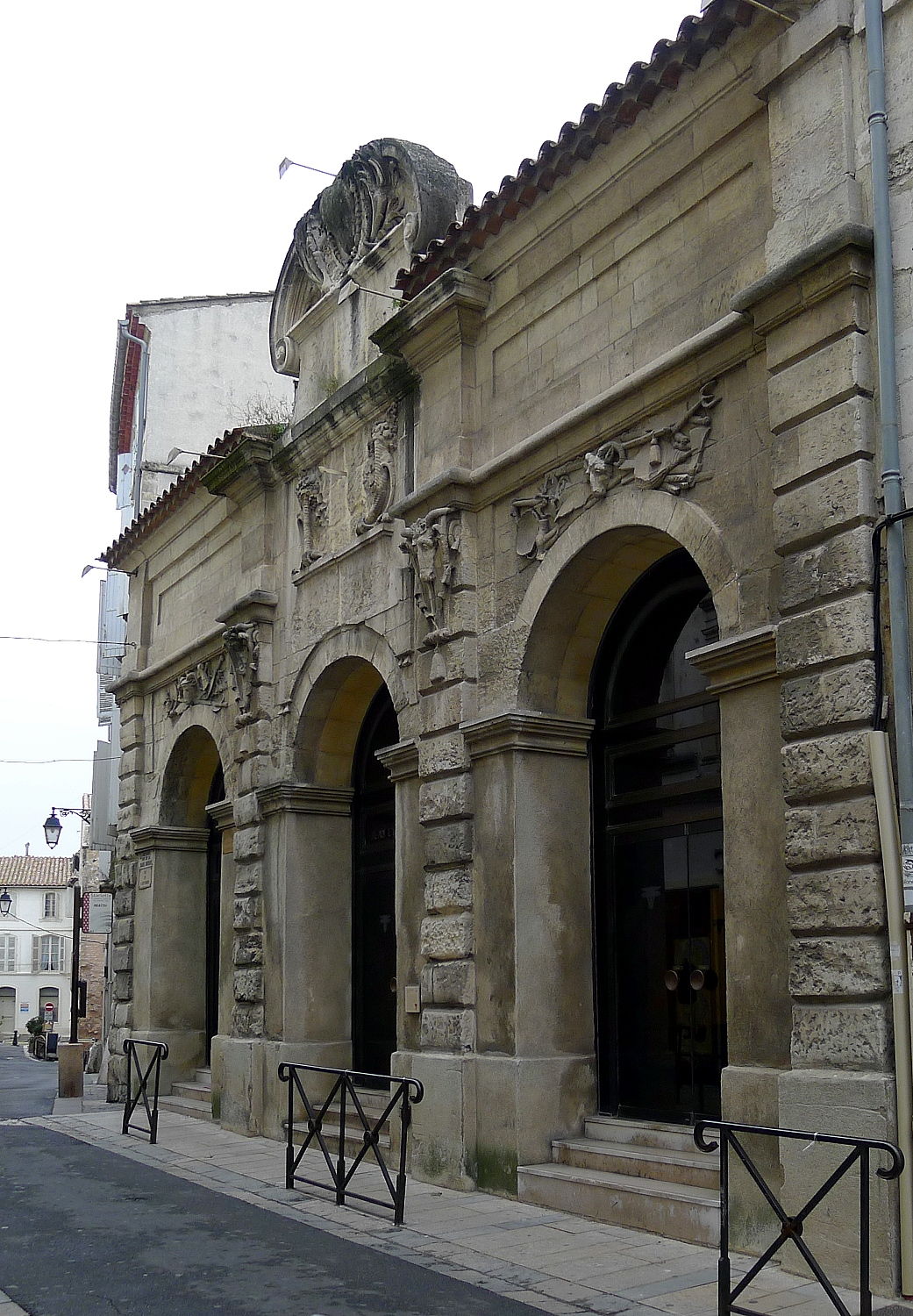 Grande boucherie - Arles